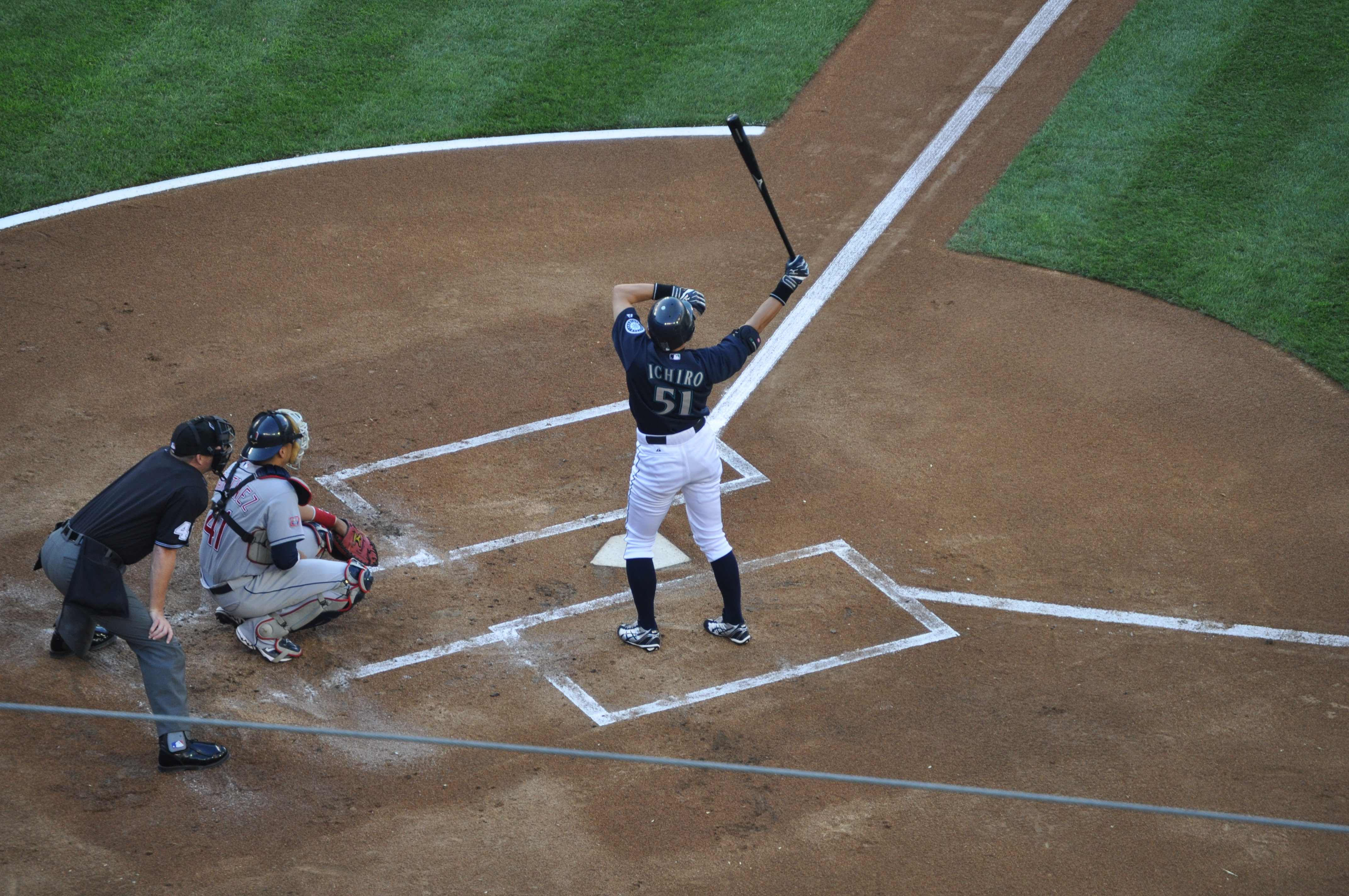 Seattle Mariners star right fielder Ichiro Suzuki makes his characteristic gesture to the right before settling his bat on his left shoulder. Playing against the Cleveland Indians at Seattle's Safeco Field, 24 July 2009.